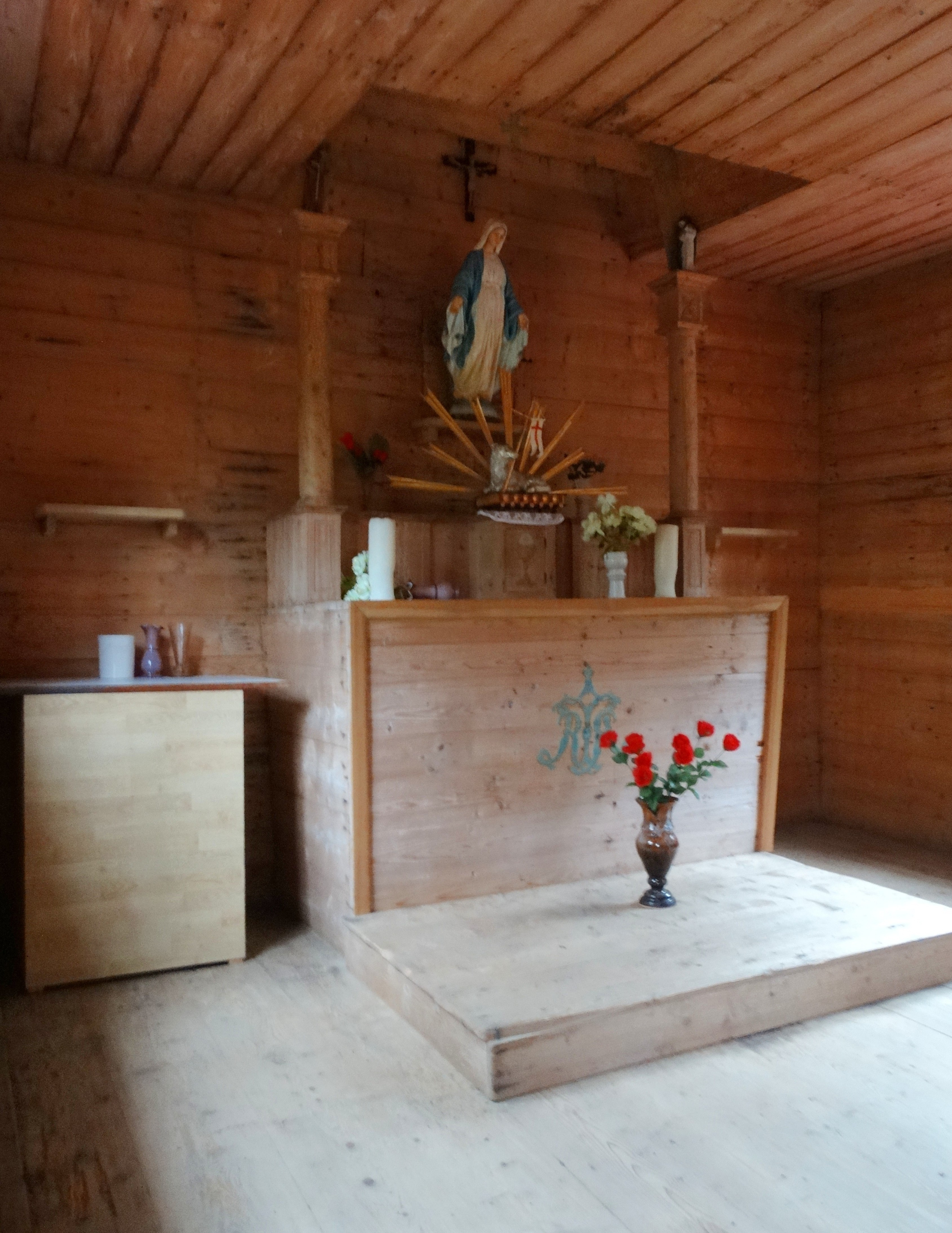 Sorai chapel, Jazdauskiškiai, Plungė district, Lithuania